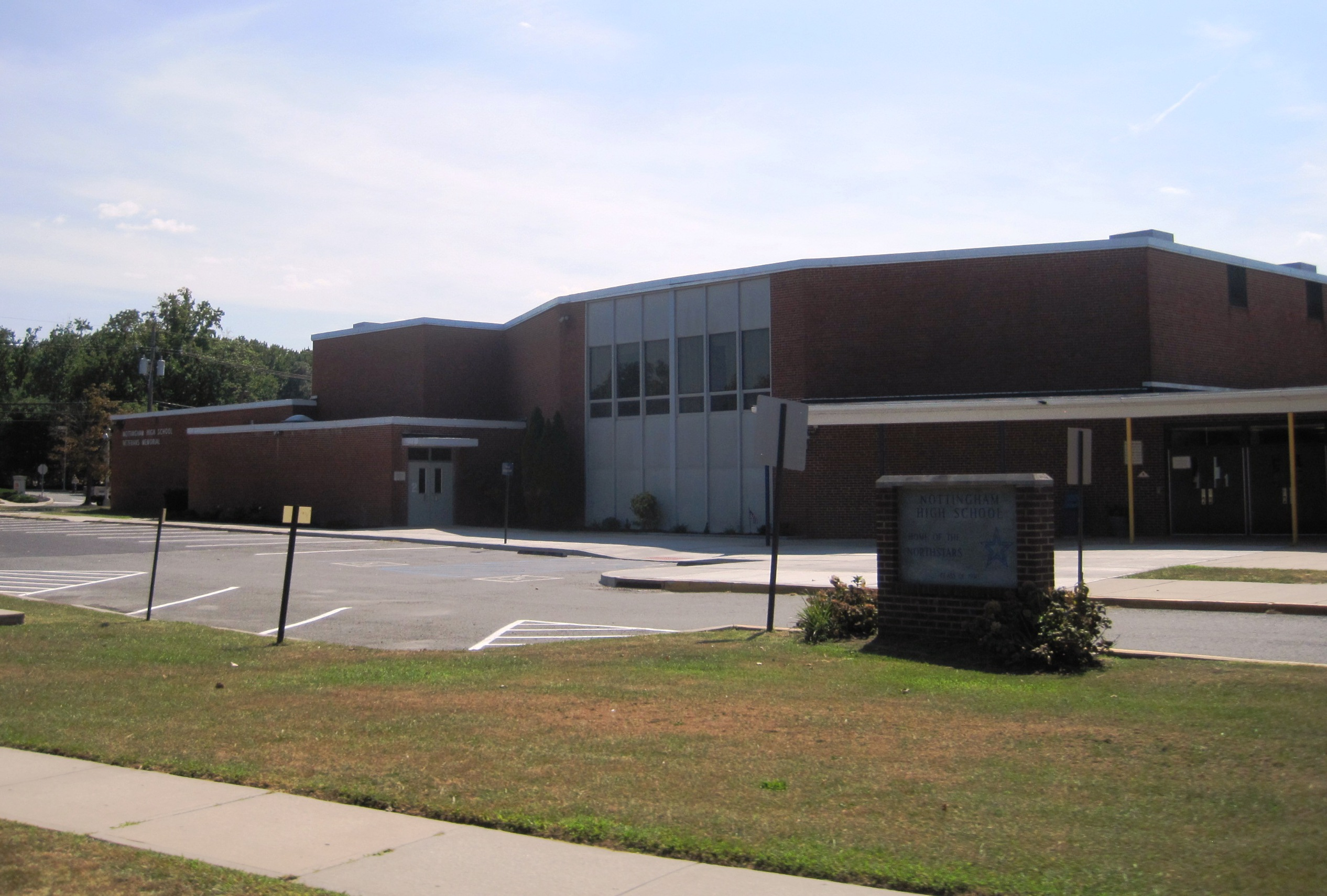 Front of the Nottingham High School in Hamilton Township, Mercer County, New Jersey (within the Chewalla Park section of the township). Photo taken along Klockner Avneue north of Hamilton Avneue (County Route 606).